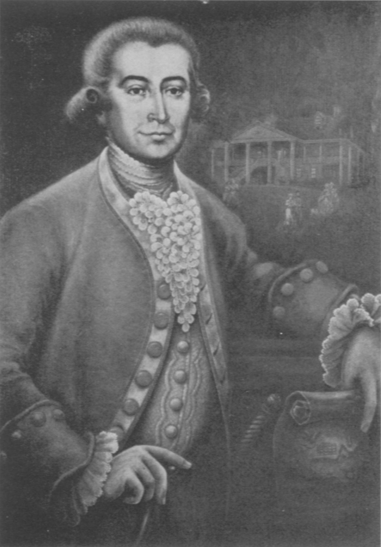 Manuel Gayoso de Lemos, Governor of Spanish Louisiana (1797-99)